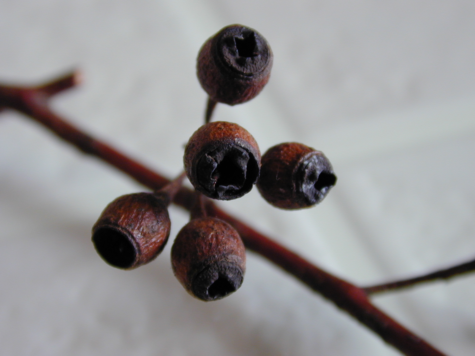 Eucalyptus sideroxylon (fruit Red iron bark). Location: Maui, Hobdy collection